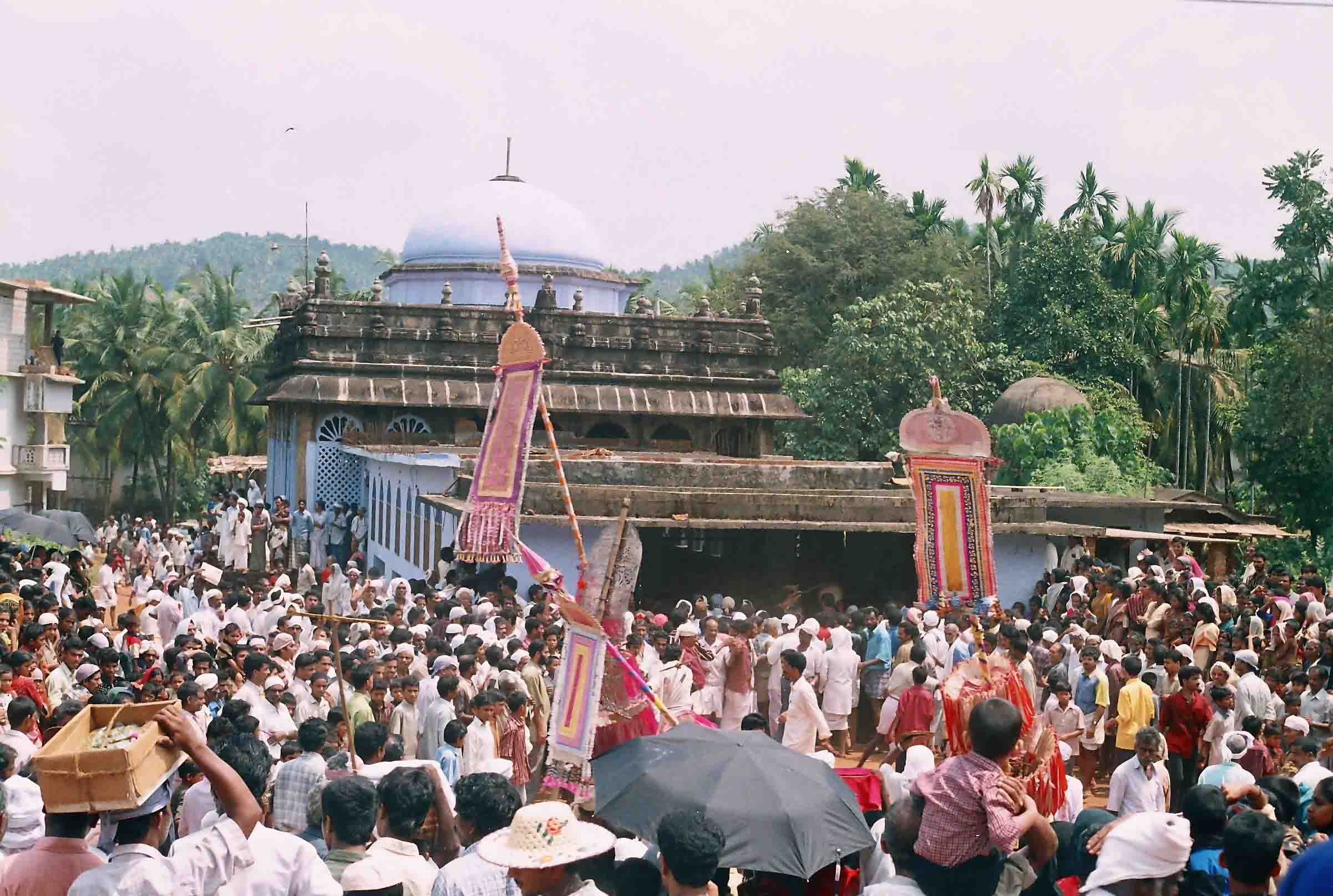 'Kondotty Nercha' a worship based festival once took place at Kondotty. Picture shows the 'Pettivaravu' part of festival.